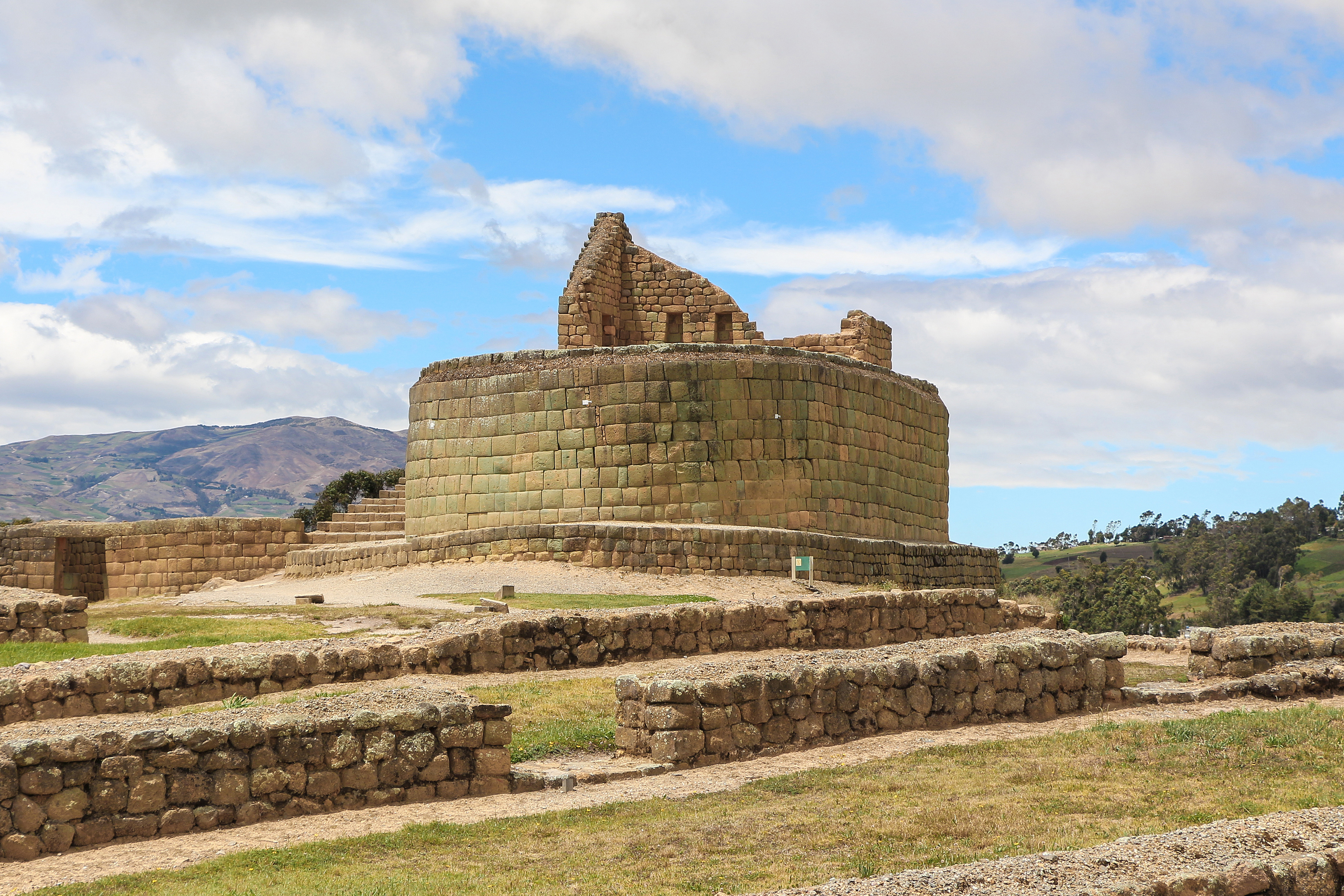 The "Temple of the Sun" of Ingapirca, Ecuador